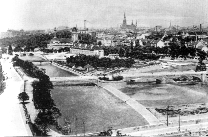 A 1900 photo of the "Museumsinsel" island in Munich. The Deutsches Museum museum is situated on the island today. The photo is taken from the southern side of the island. The longish building in the center is the former "Isarkaserne" (Isar barracks).